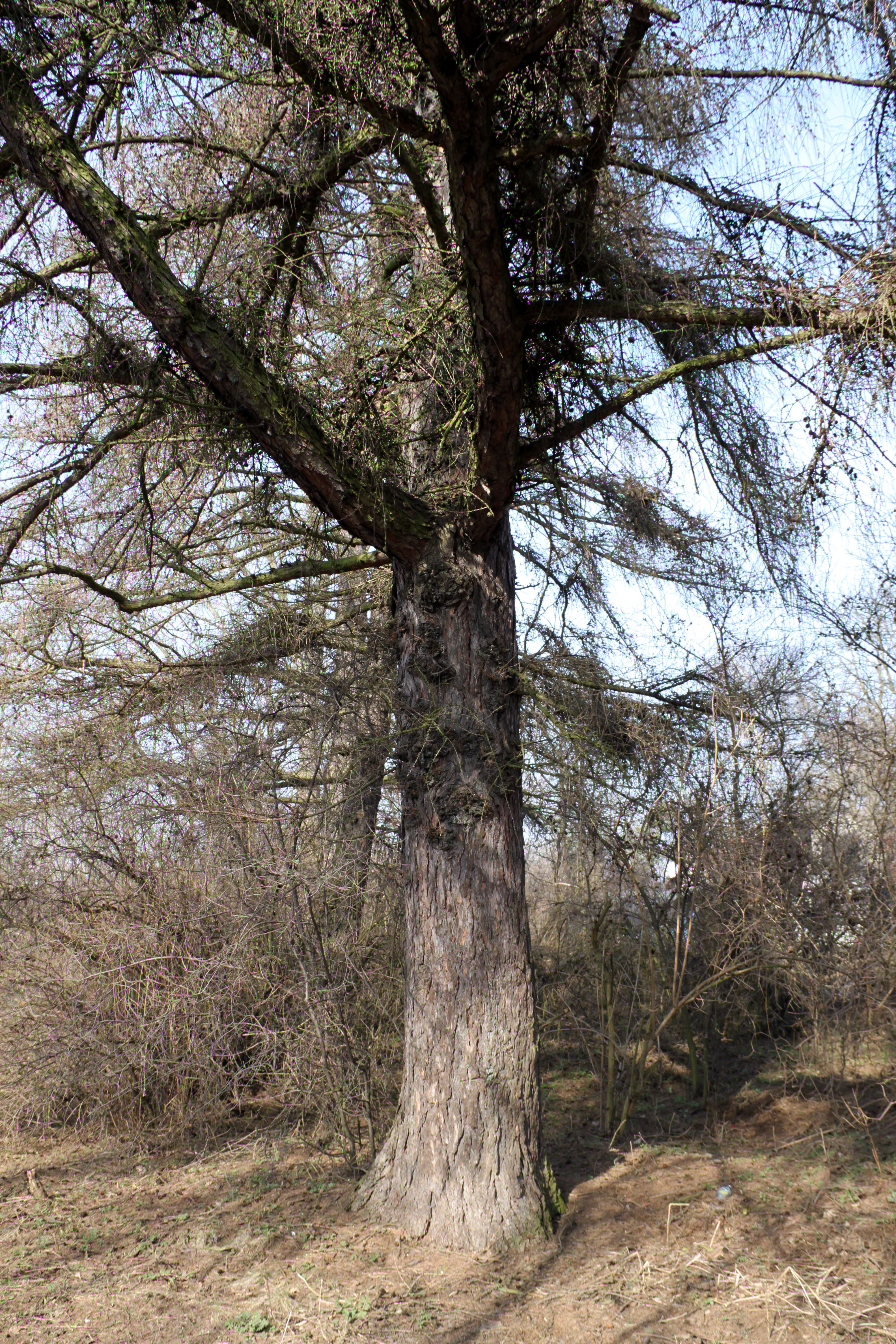 European Larch (Larix decidua) trunk; Marki, Poland.